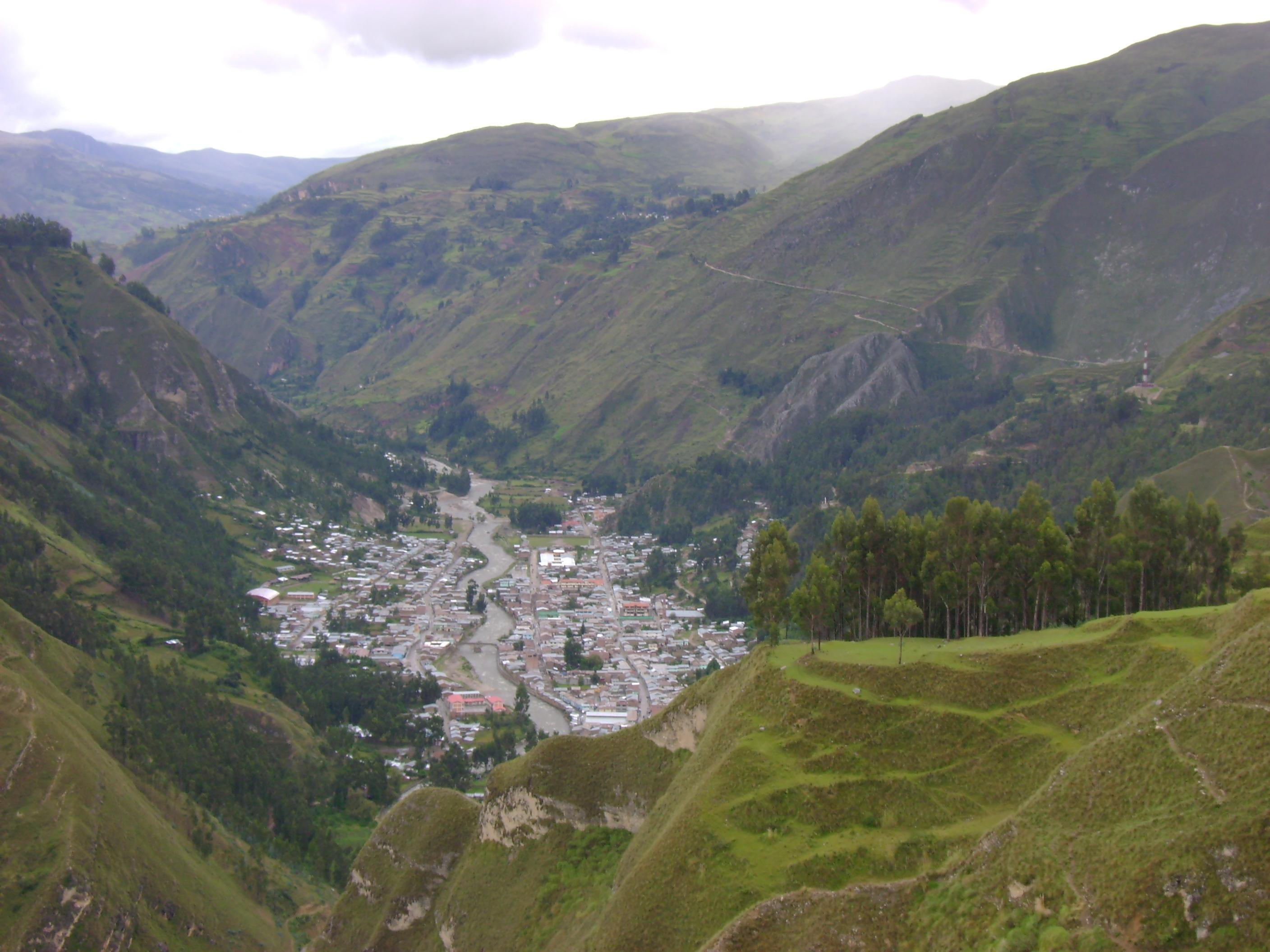 The Union, from the edge of Huanuco Pampa.